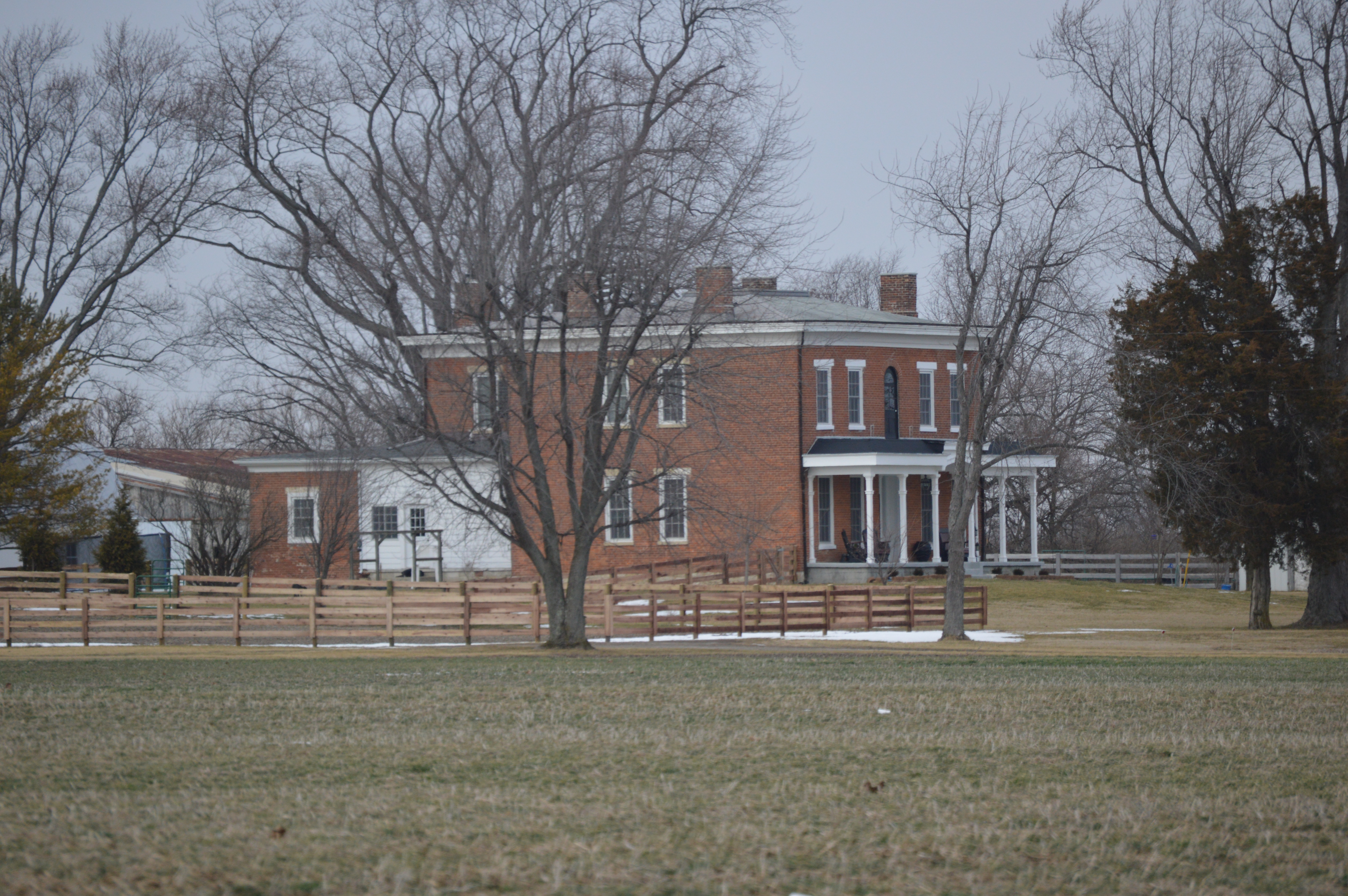 Distant view of a farmhouse on State Route 38 just south of London in Union Township, Madison County, Ohio, United States.